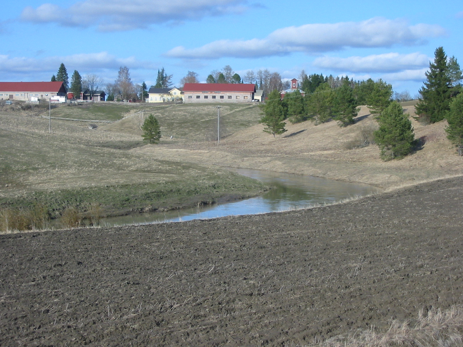 Haali Manor house in Pertteli, Salo, Finland. In the front river Uskelanjoki.